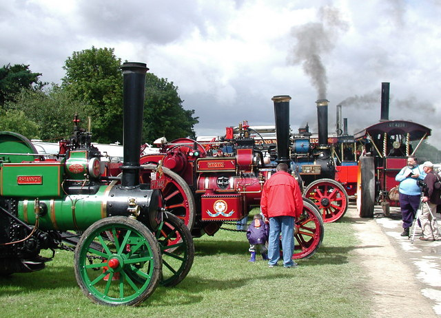 Driffield Showground, Kelleythorpe, East Riding of Yorkshire, England.The showground off the north side of the A164 at Kelleythorpe, during the 2008 Driffield Steam and Vintage Rally weekend.